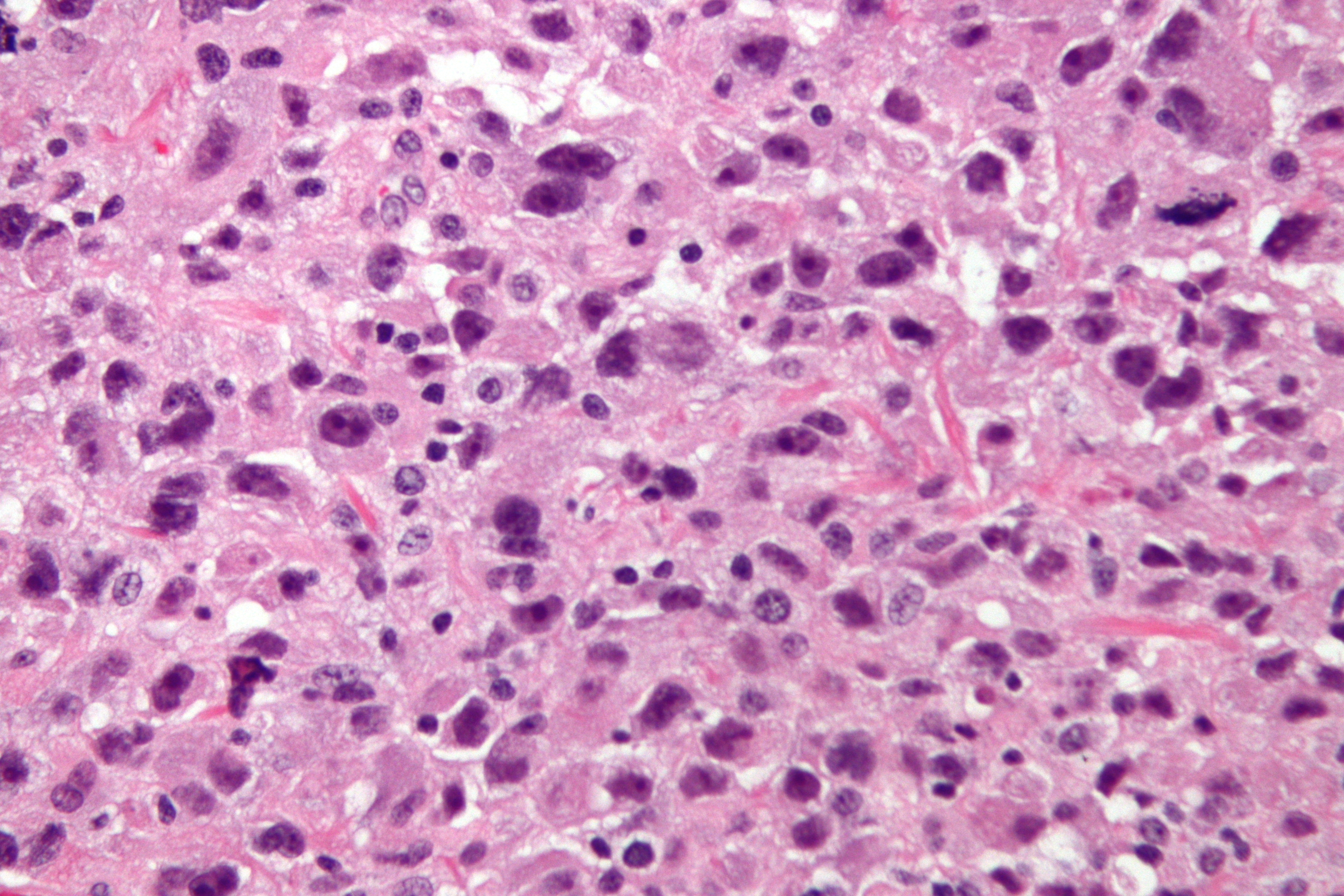 Very high magnification micrograph of a pleomorphic undifferentiated sarcoma, also undifferentiated pleomorphic sarcoma, and previously known as malignant fibrous histiocytoma, abbreviated MFH. H&E stain. Related images Intermed mag. Very high mag.